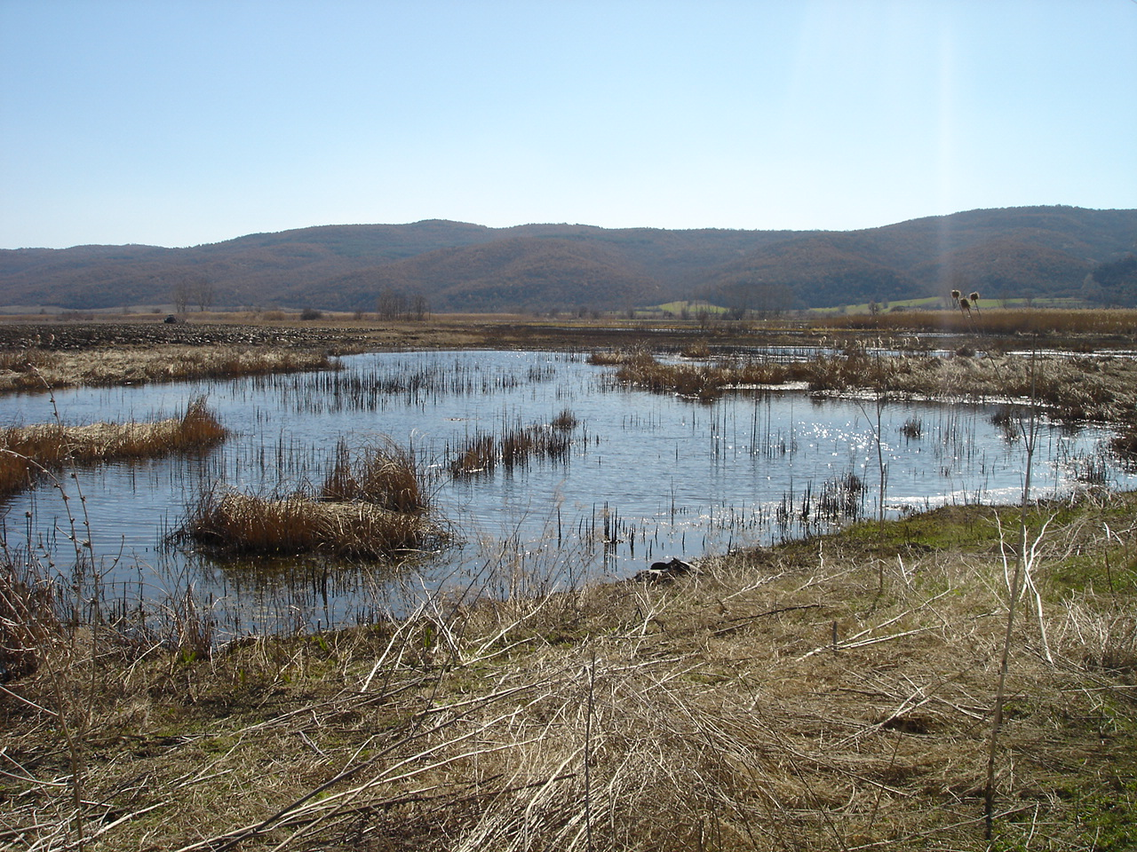 Katlanovo Swamp, Macedonia